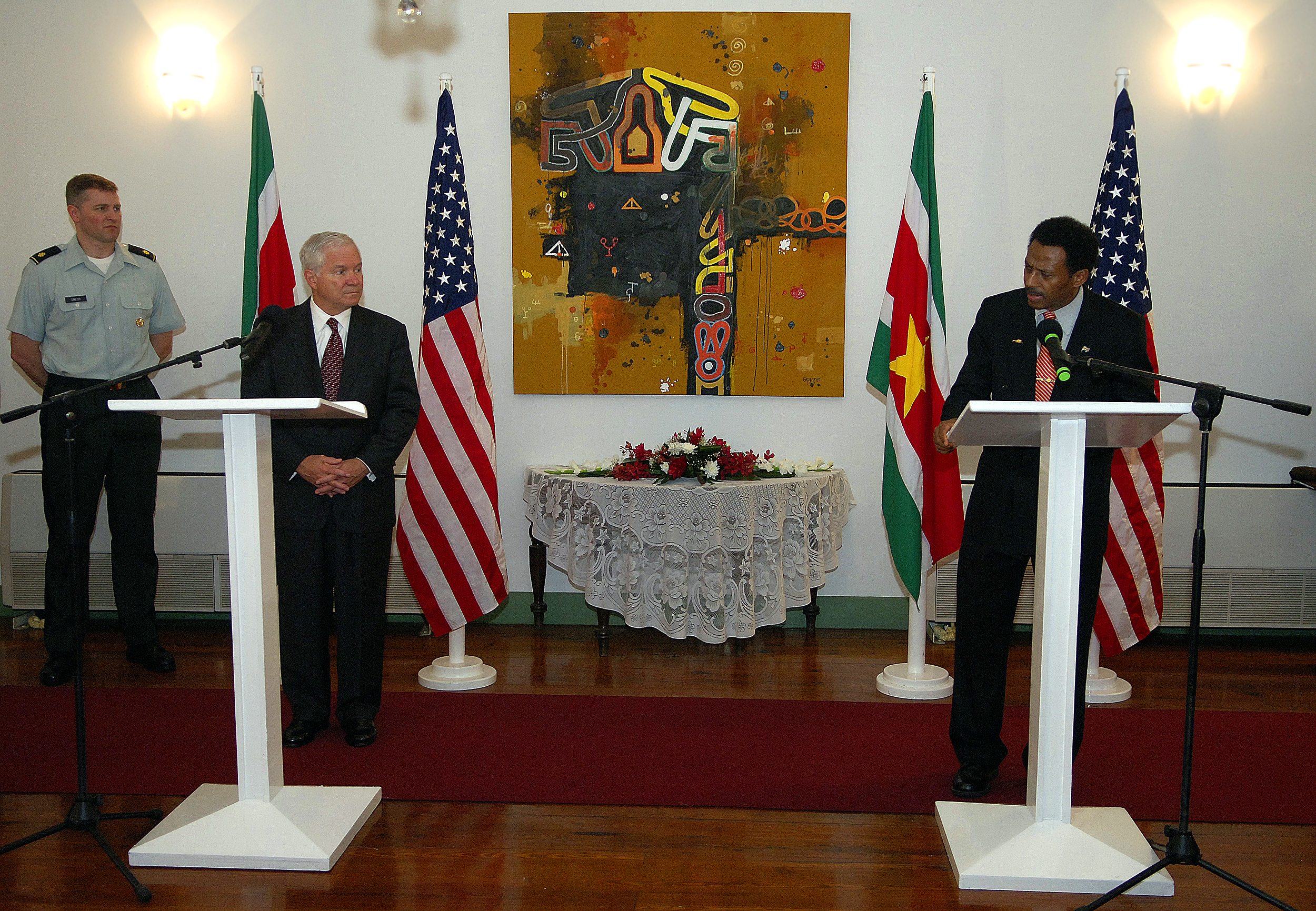 Secretary of Defense Robert M. Gates and Suriname Minister of Defense Ivan Fernald hold a press conference at the Presidential palace in Paramaribo, Suriname.